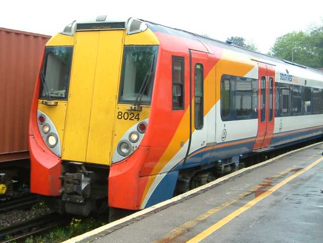 This image was copied from . The original description was: Class 458 railway DC Unit - South West Trains livery - Virginia Water station - England - 280404.jpg Image:Class 458 railway DC Unit - South West Trains livery - Virginia Water station - England - 280404.jpg